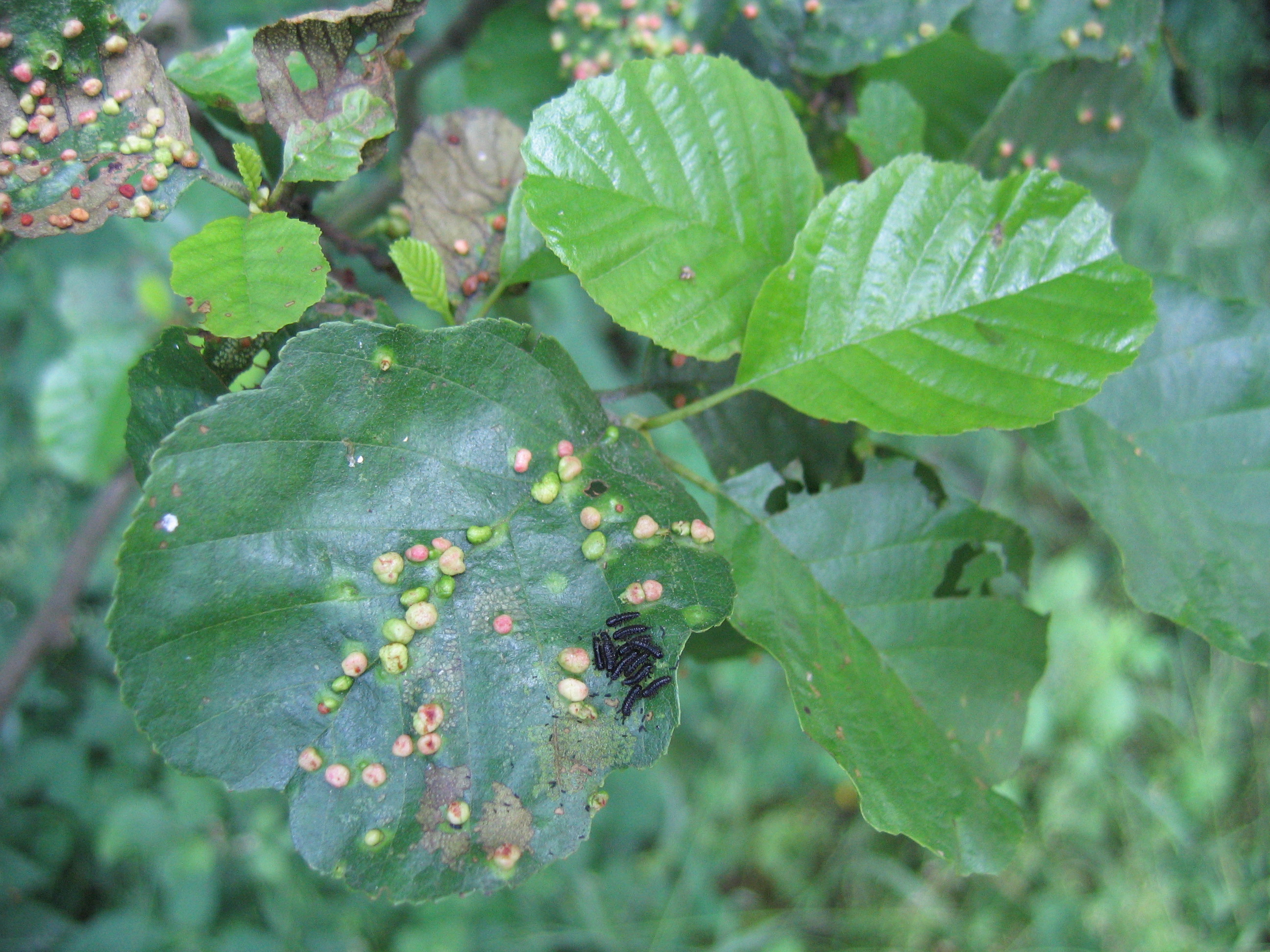 Alnus glutinosa leaves with galls of Eriophyes laevis and Agelastica alni larvae, in the bank of Gwda river, Piła, Poland.